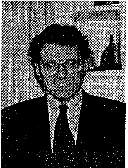 Dan A. Polster, United States Federal Judge.